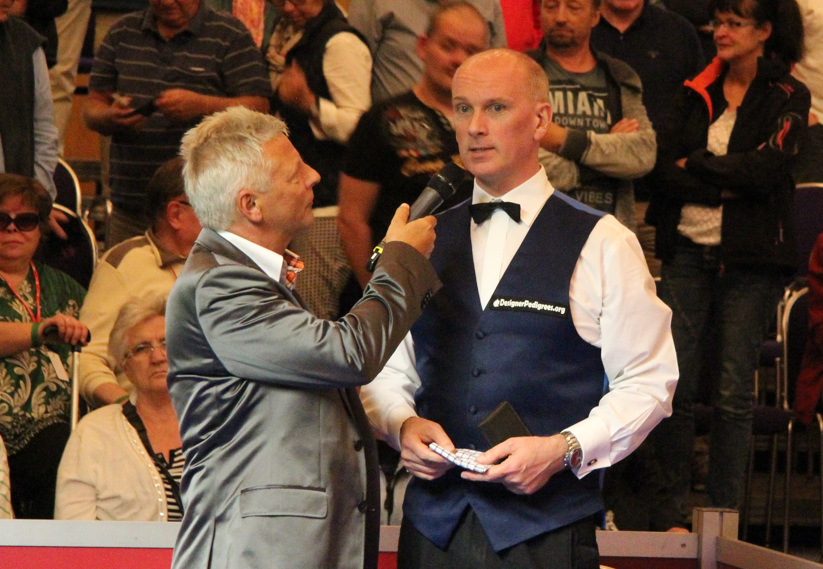 Peter Ebdon at the Paul Hunter Classic 2018